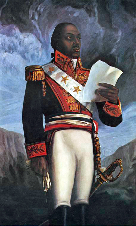 Depicted person: Toussaint Louverture – Leader of the Haitian Revolution